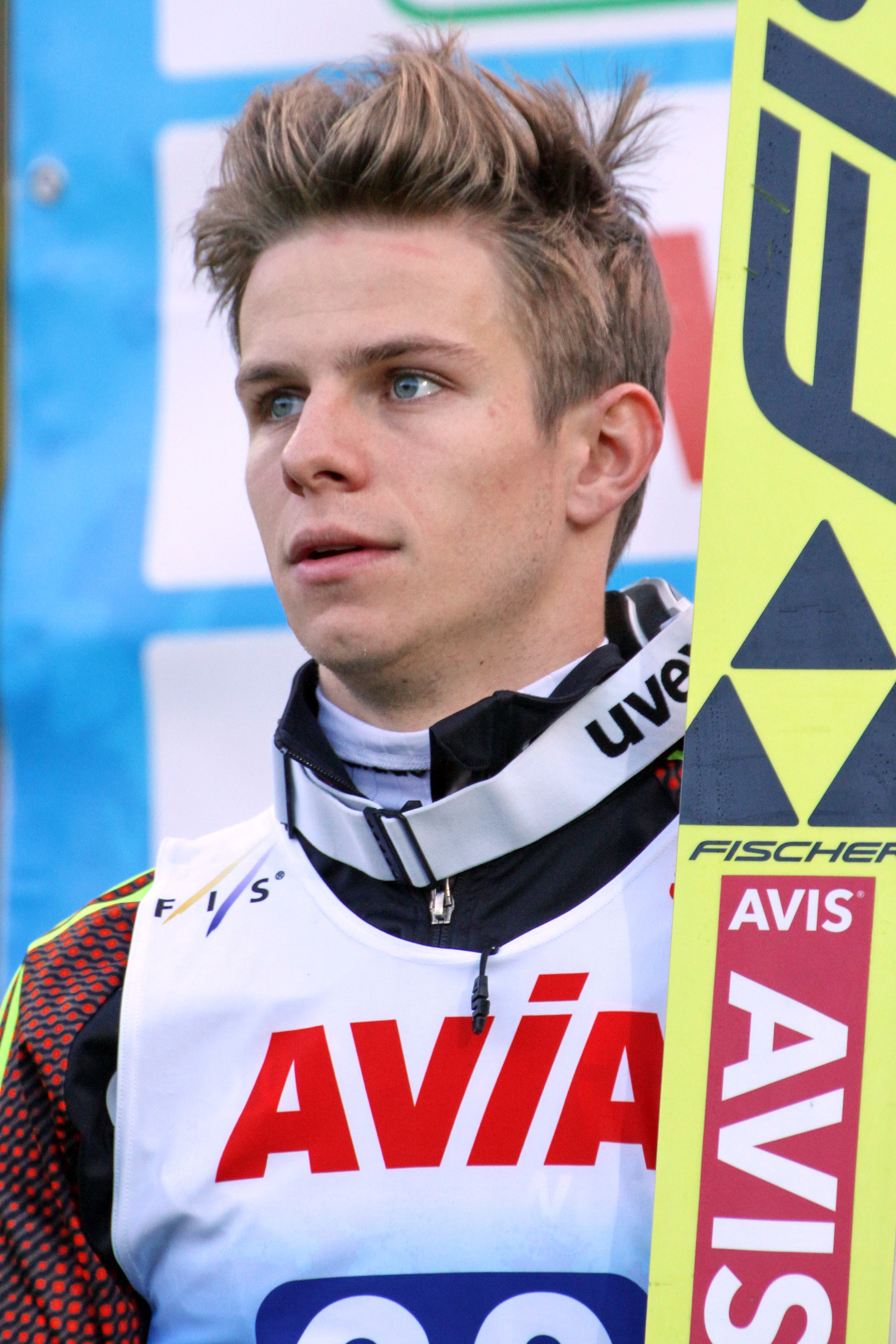 FIS Ski Jumping Summer Grand Prix Klingenthal 2017 on 2017-10-03 Andreas Wellinger